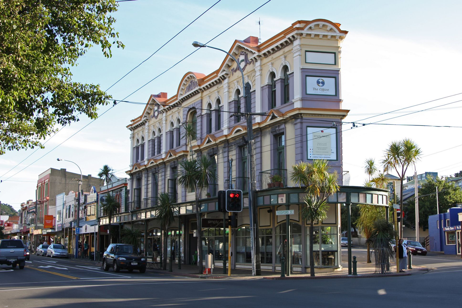 The former Langham Private Hotel is registered by the New Zealand Historic Places Trust as a Category II structure, with registration number 1335.